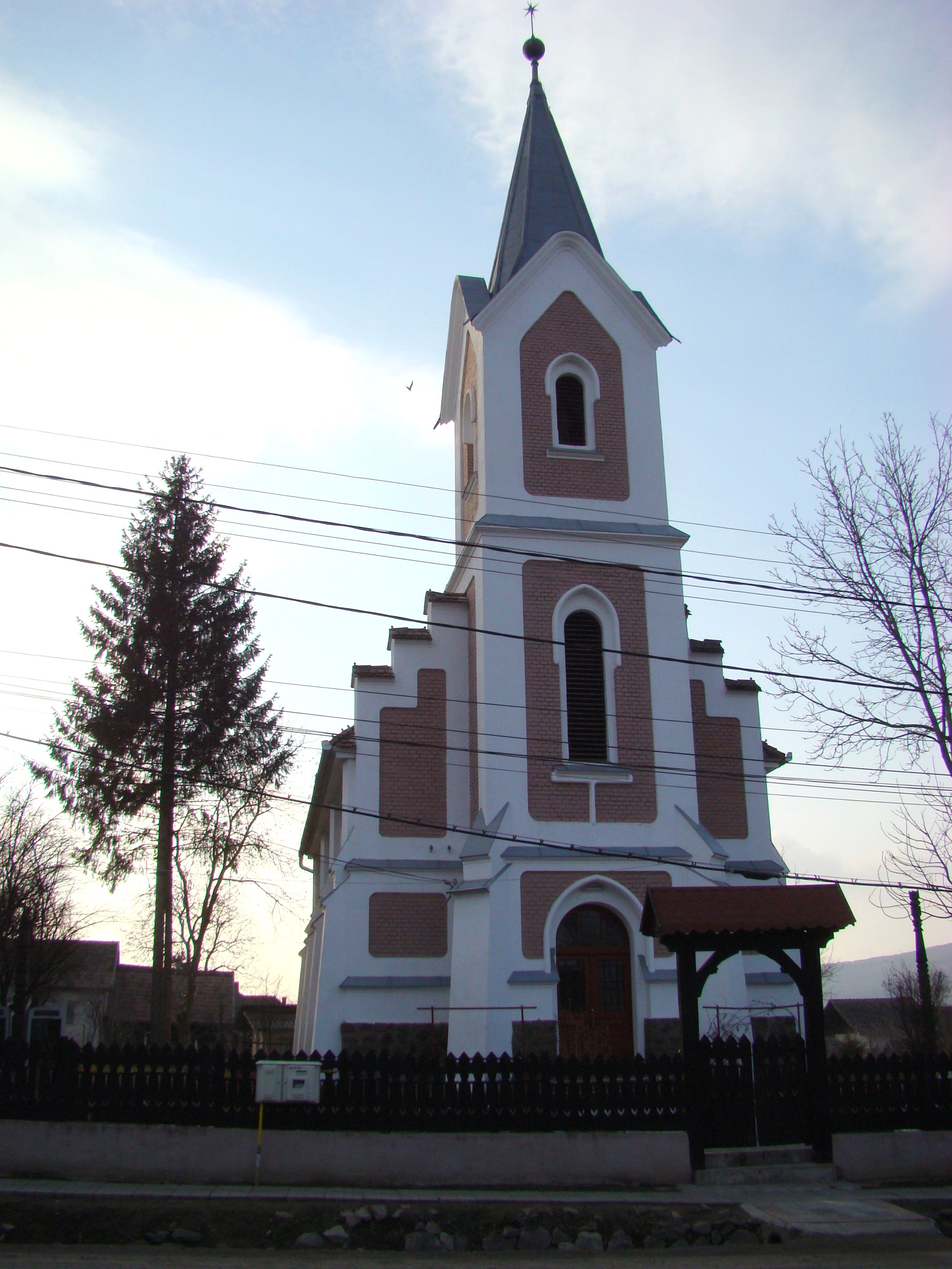 Adămuş, Mureş county, Romania